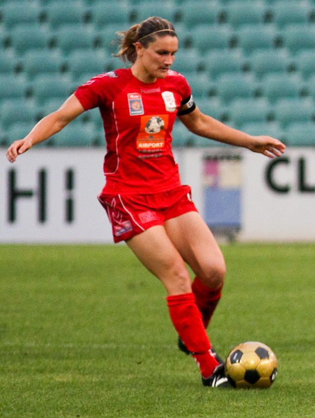 Dianne Alagich playing for Adelaide United against Sydney FC in round 10 of the 08/09 W-League.